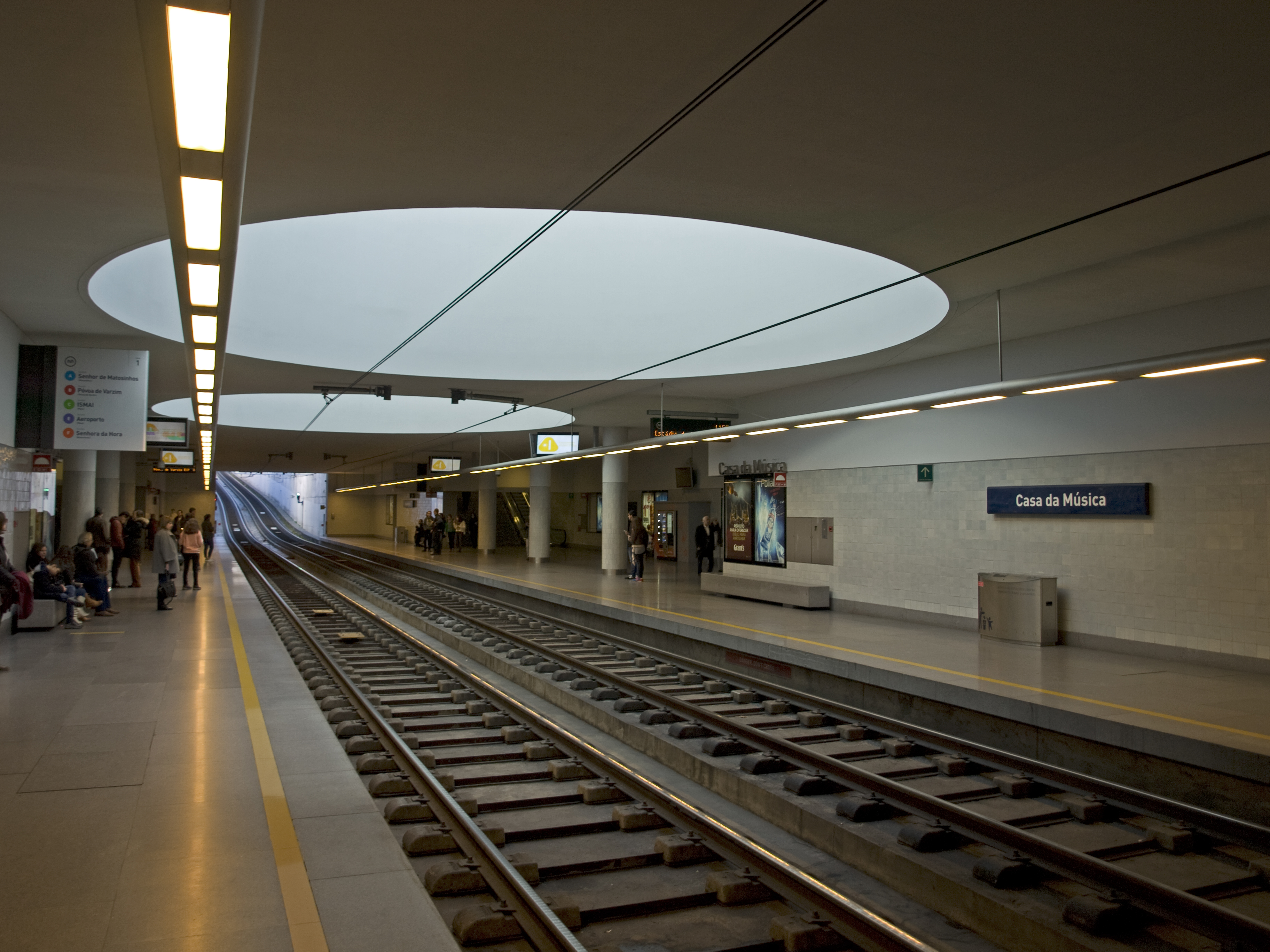 Platforms of Casa da Música metro station, Porto, Portugal